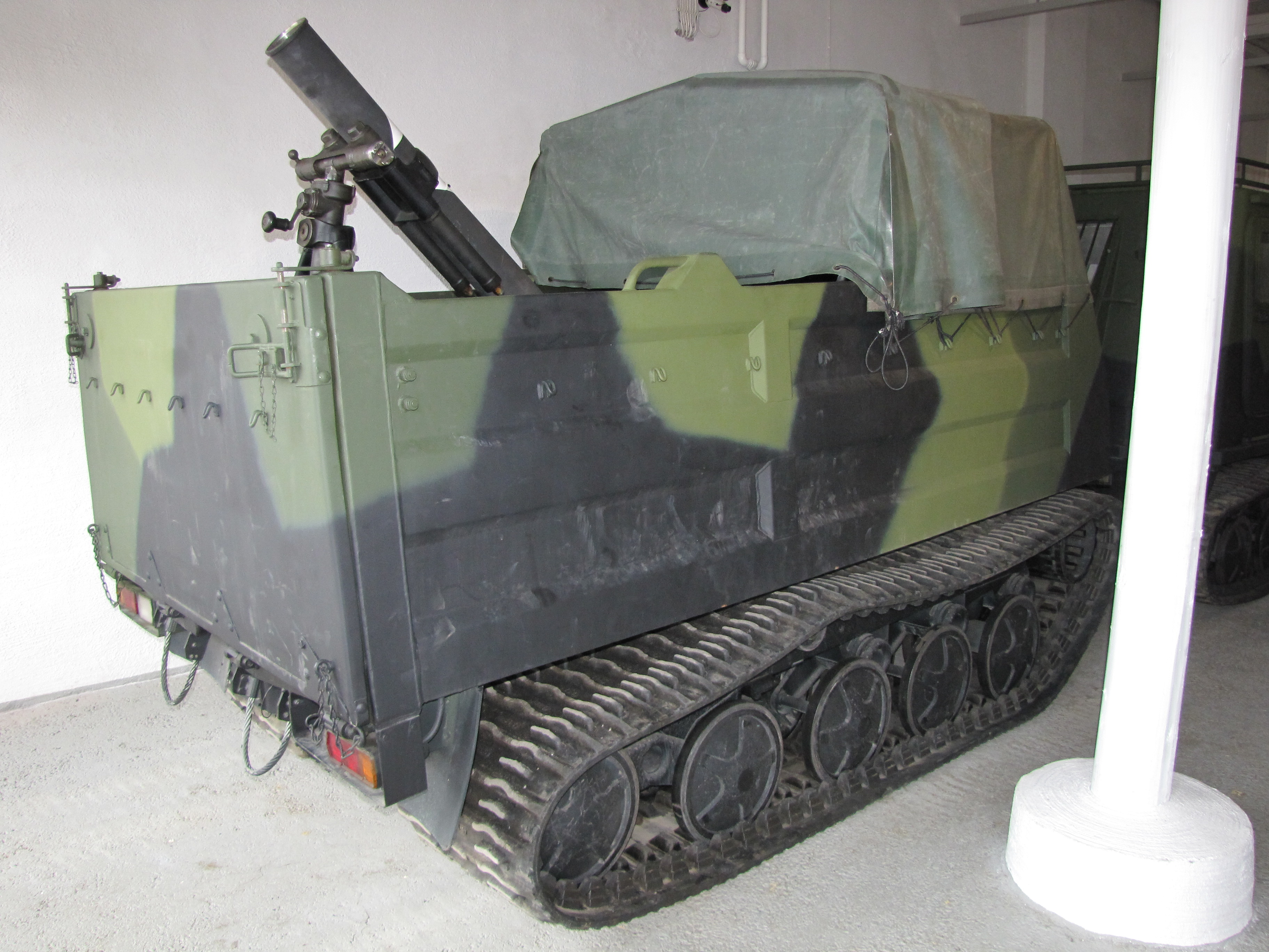 Sisu NA-122 GT mortar carrier version of Sisu Nasu, with 120 mm heavy mortar 92 in the tail unit. Photographed in Hämeenlinna artillery museum.